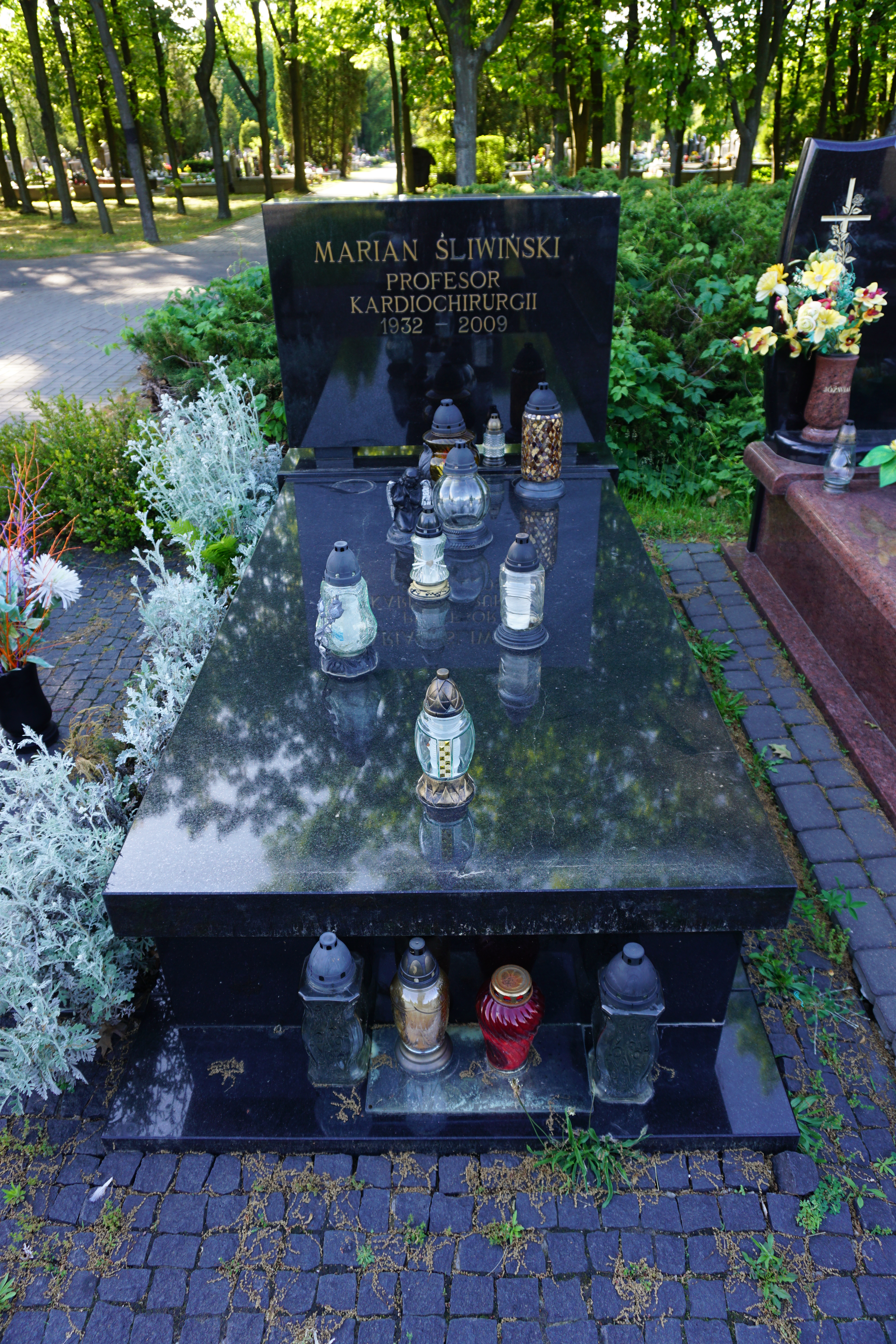 The grave of Marian Śliwiński at the North Municipal Cemetery in Warsaw (section B-VI-1, row 8, grave 23)